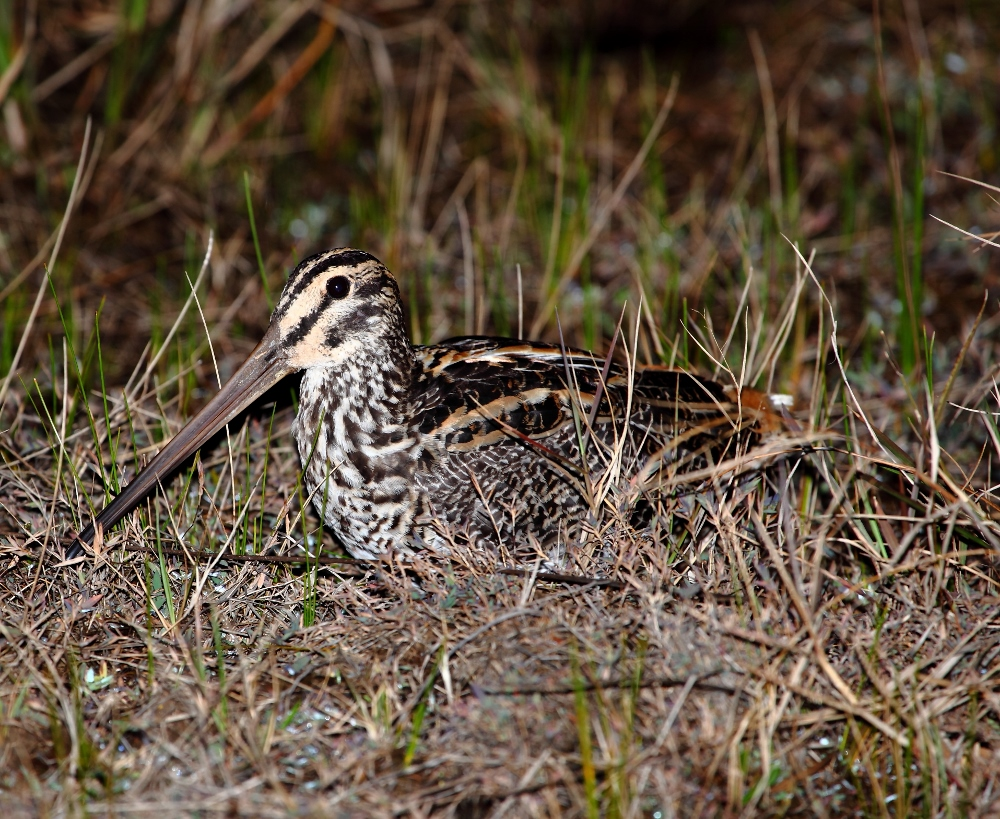 Giant Snipe at Dourado - SP - Brazil